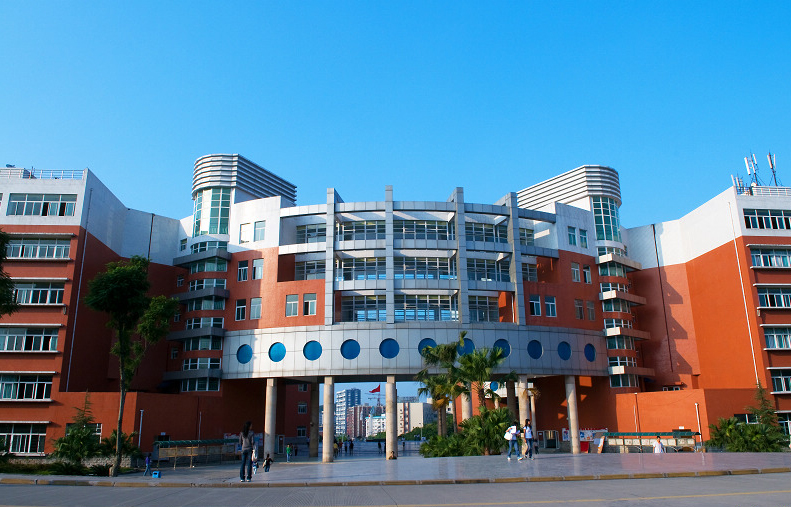 This is a teaching building in Huidong campus of SUSE.